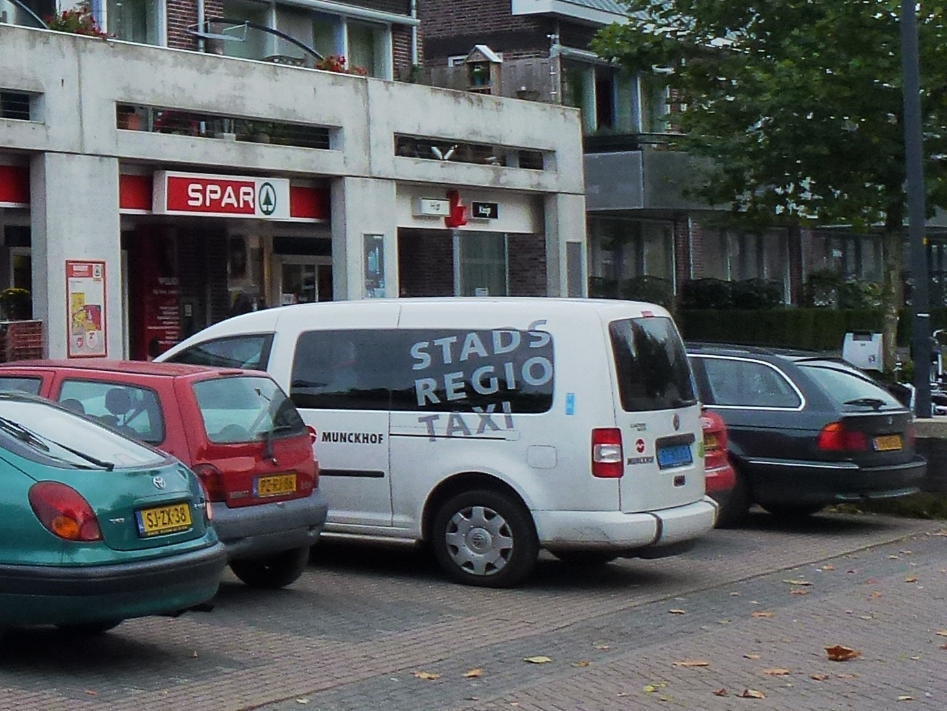 Ubbergen, Leuth winkelcentrumpje regiotaxi